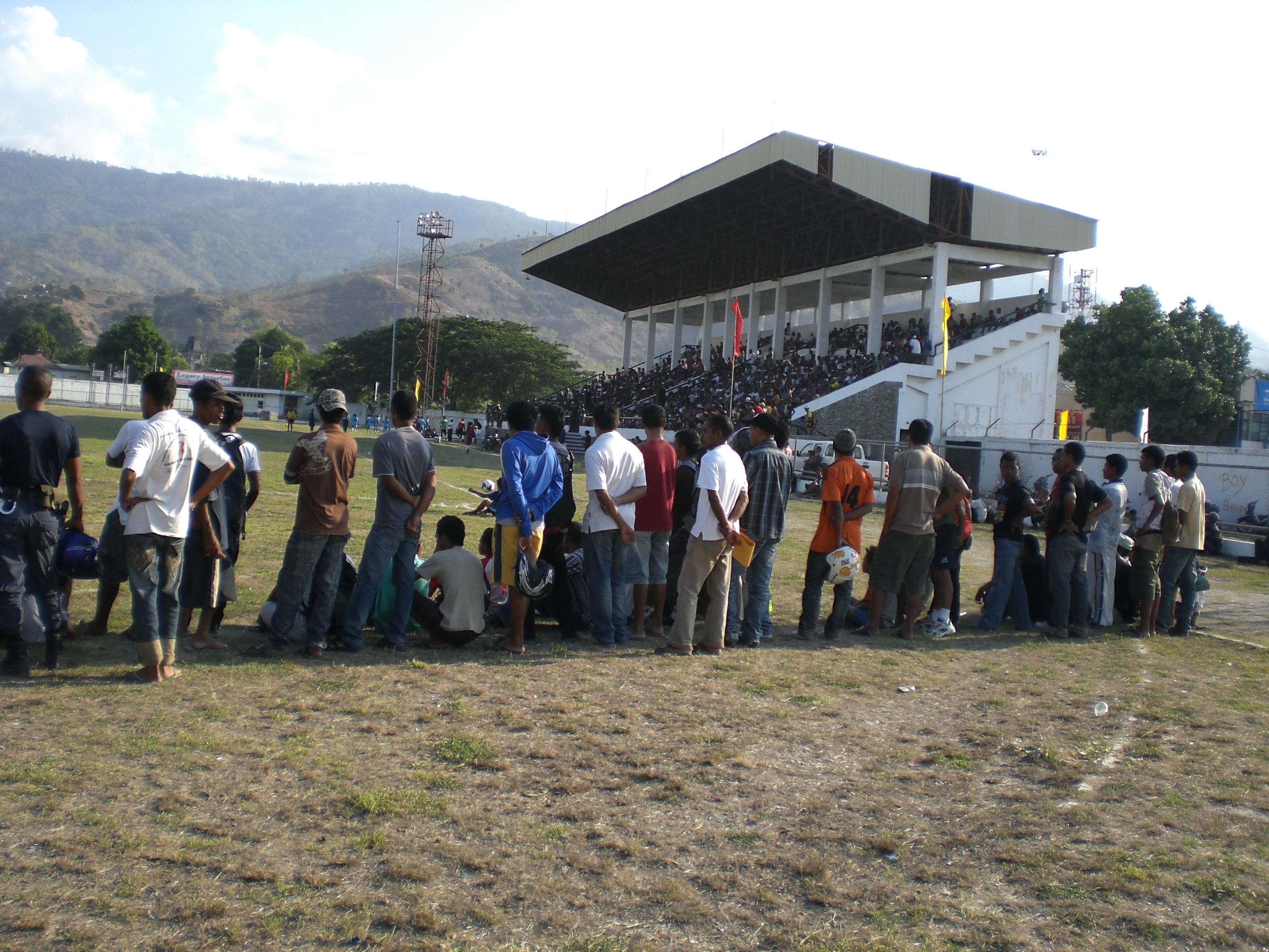 Stadium in Dili/Timor-Leste